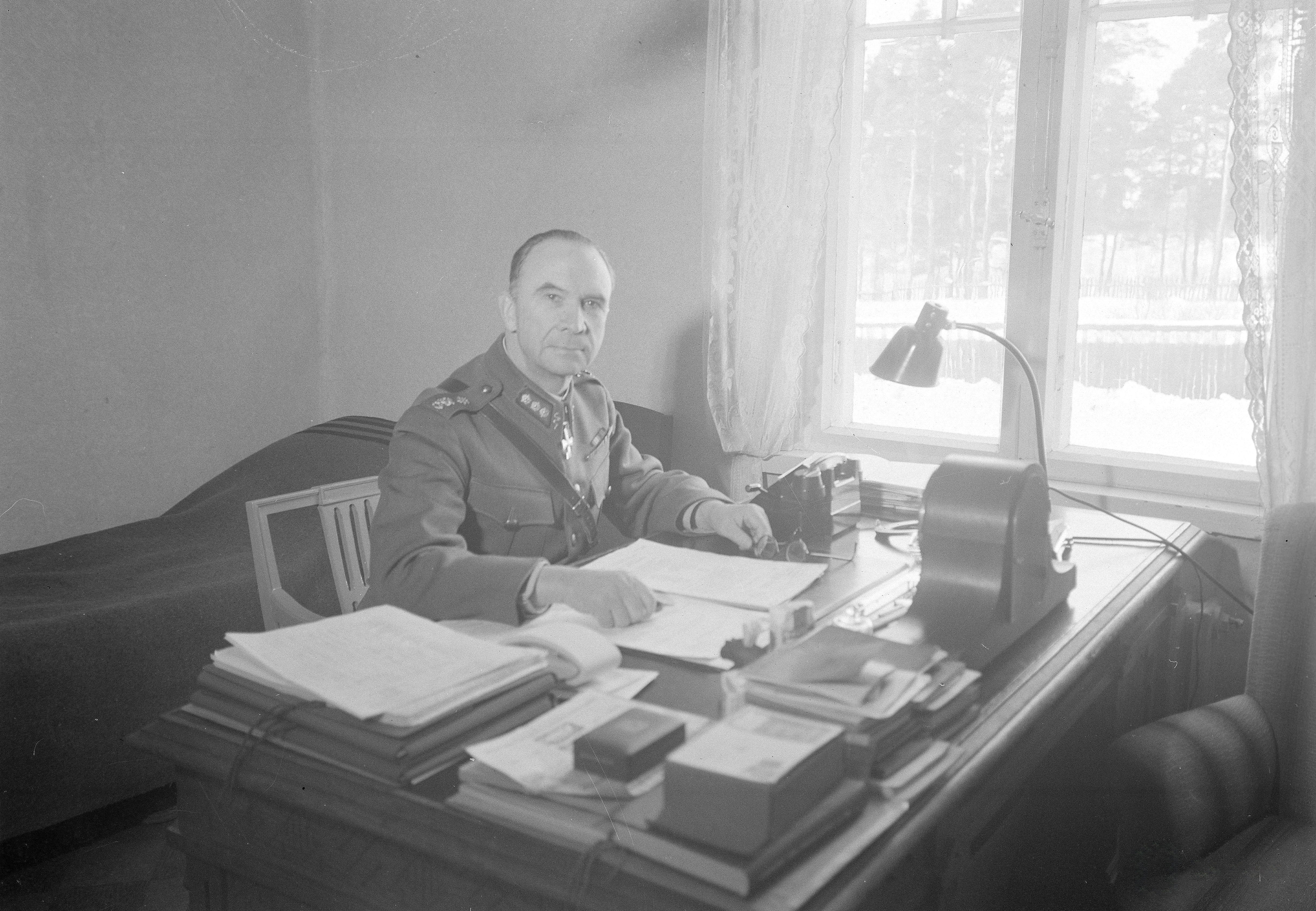 Photograph of the Finnish veterinarian and officer Gotthelm Klenberg.